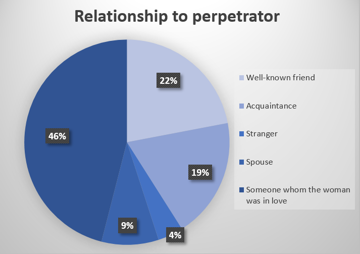 graphical representation of rape perpetrators Kelly, Gary (2011). Sexuality today. New York, NY: McGraw-Hill. ISBN 9780073531991.